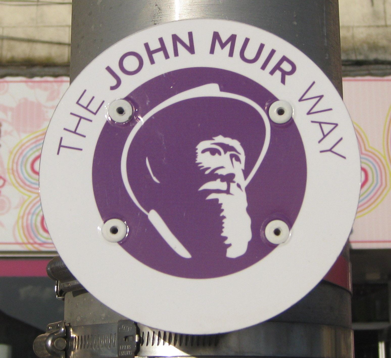 John Muir Way